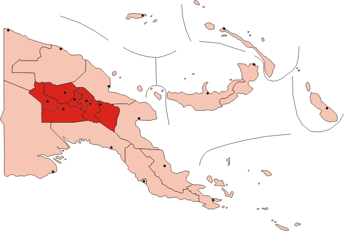 Locator map of Highlands Region of Papua New Guinea